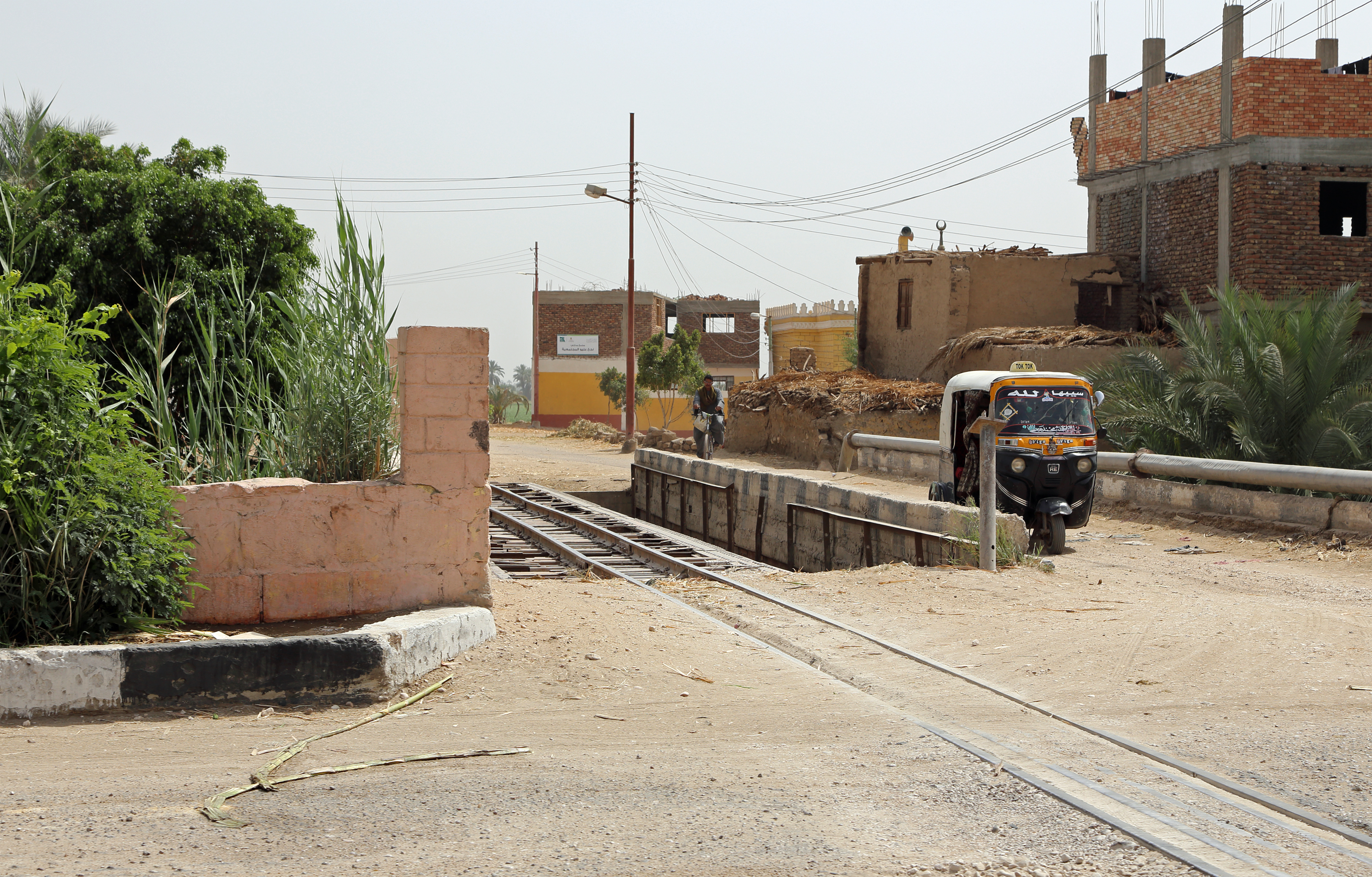 Luxor (Egypt), West Bank: narrow-gauge railway for the transportation of sugar cane